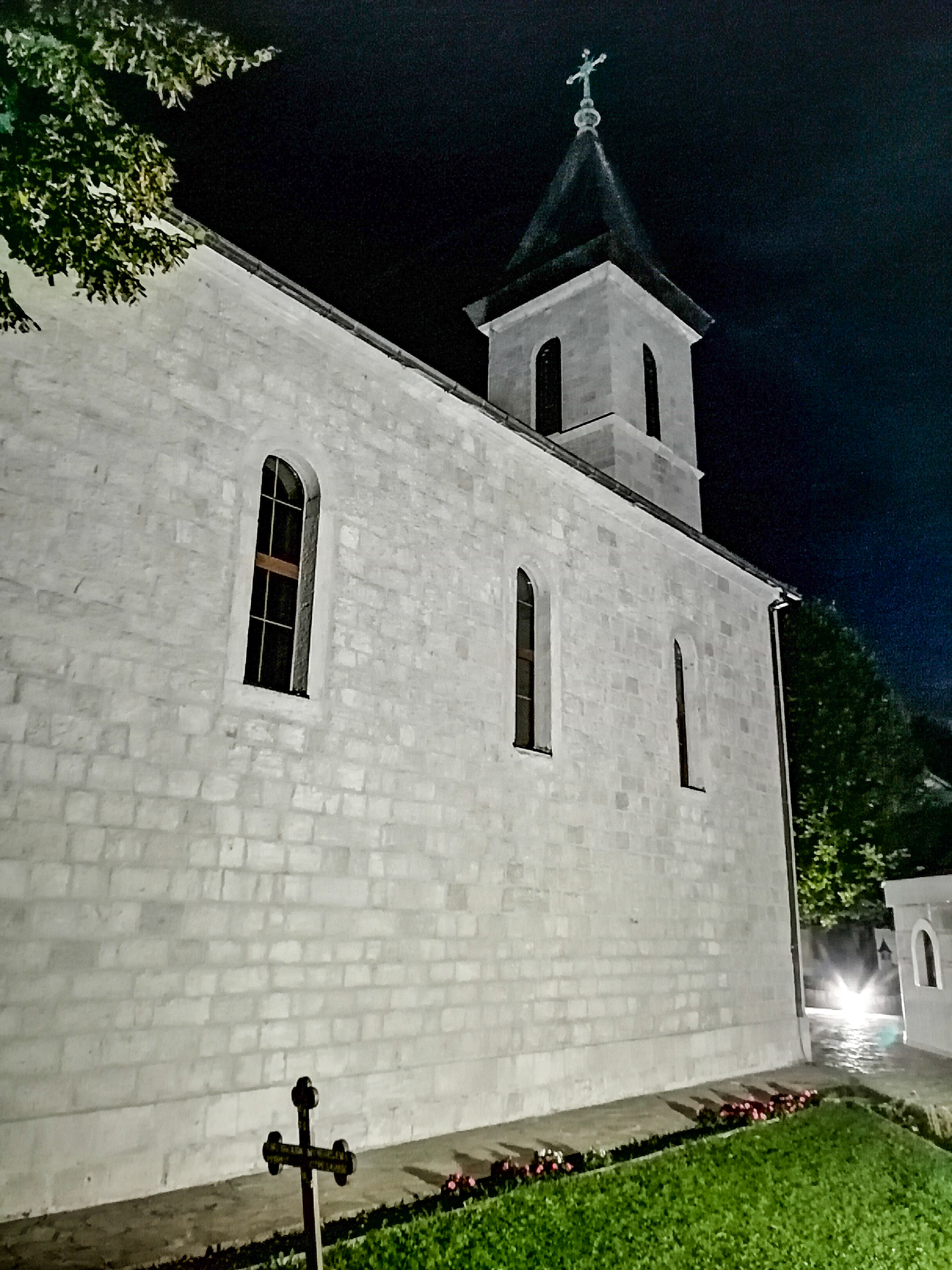 Srpski (latinica): Crkva Uznesenja Blažene Device Marije, Nevesinje This image was uploaded as part of Trace of Soul 2019.